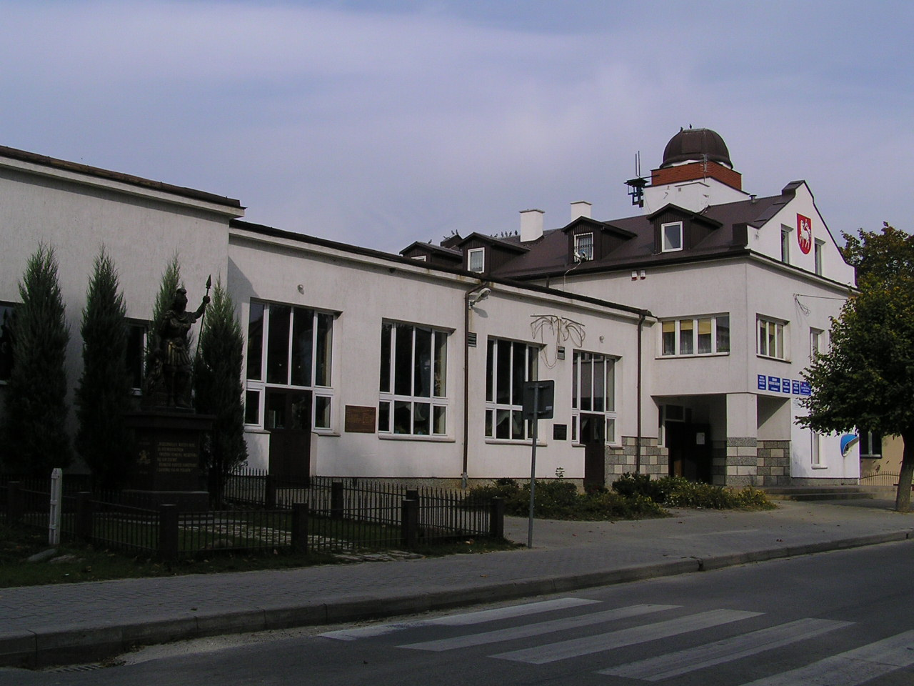 autor: Yarek shalom 21:12, 12 October 2006 (UTC)yarek shalom